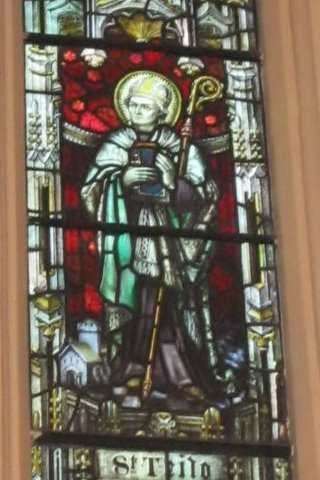 Stained glass window